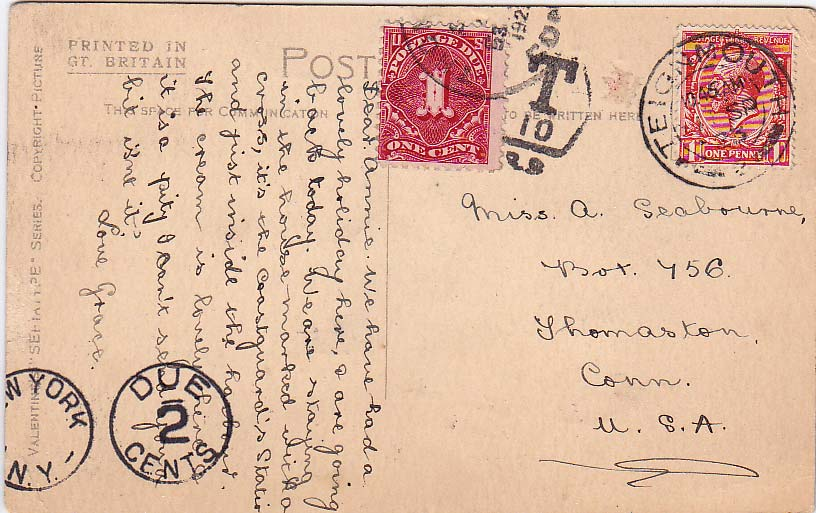 Mailed cover from Great Britain w/ one penny stamp, 1923, w/US postage due.